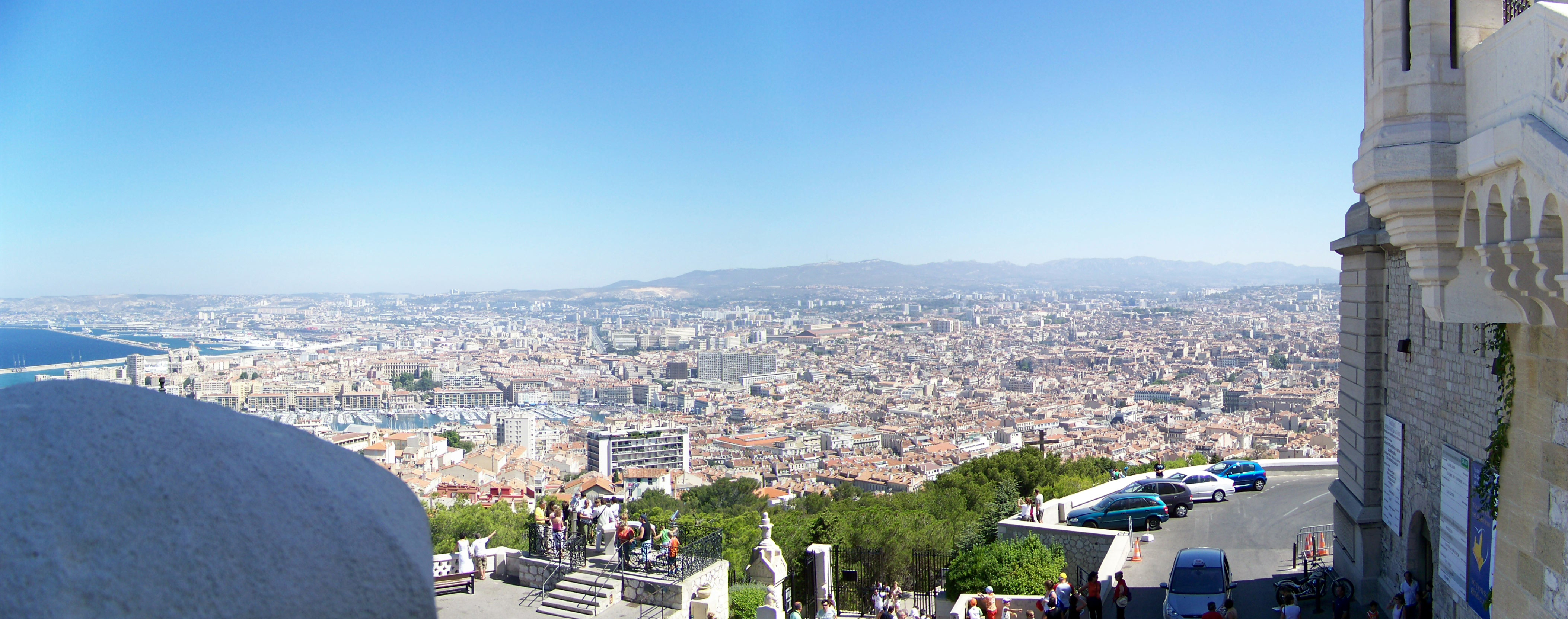 Panorama of Marseille